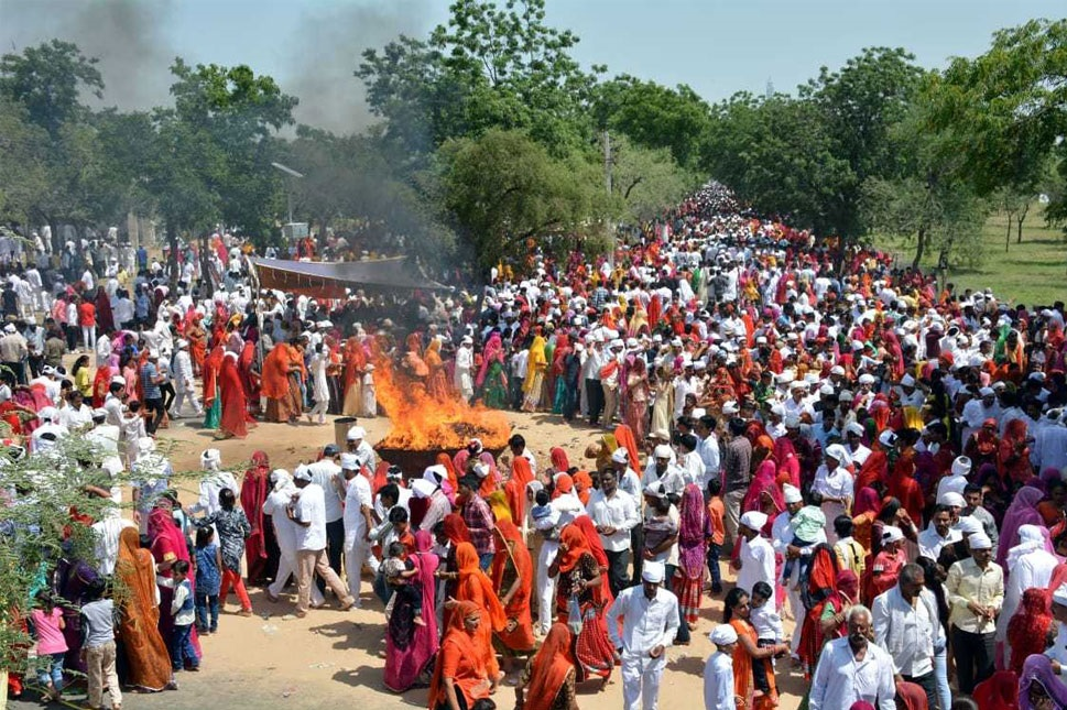 Vishnois Performing Havan With Khopra (Coconut) And Ghee At Khejarli Environment Fair.